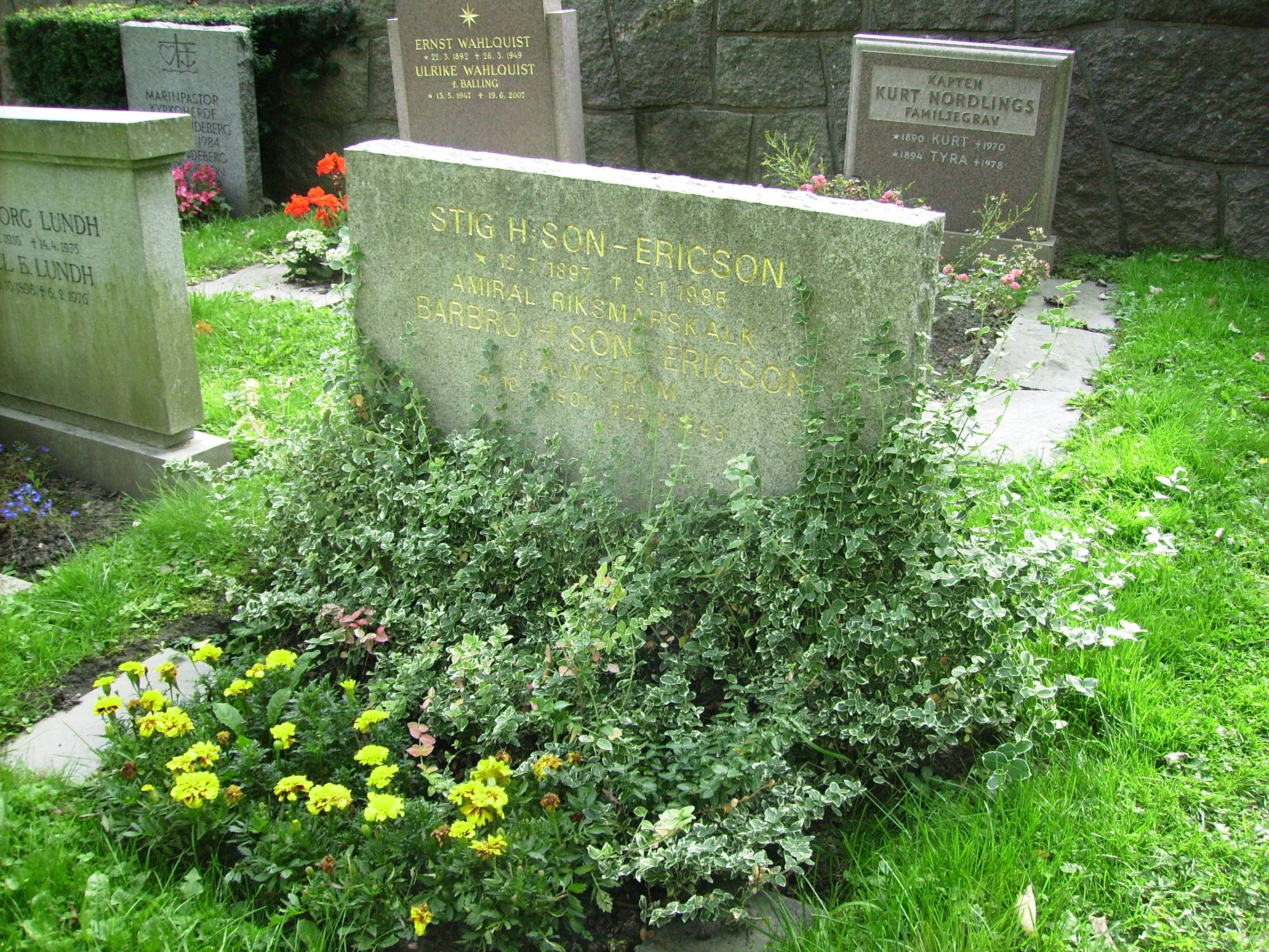 Picture of Stig H:son Ericsson's grave at Galärvarvskyrkogården in Stockholm